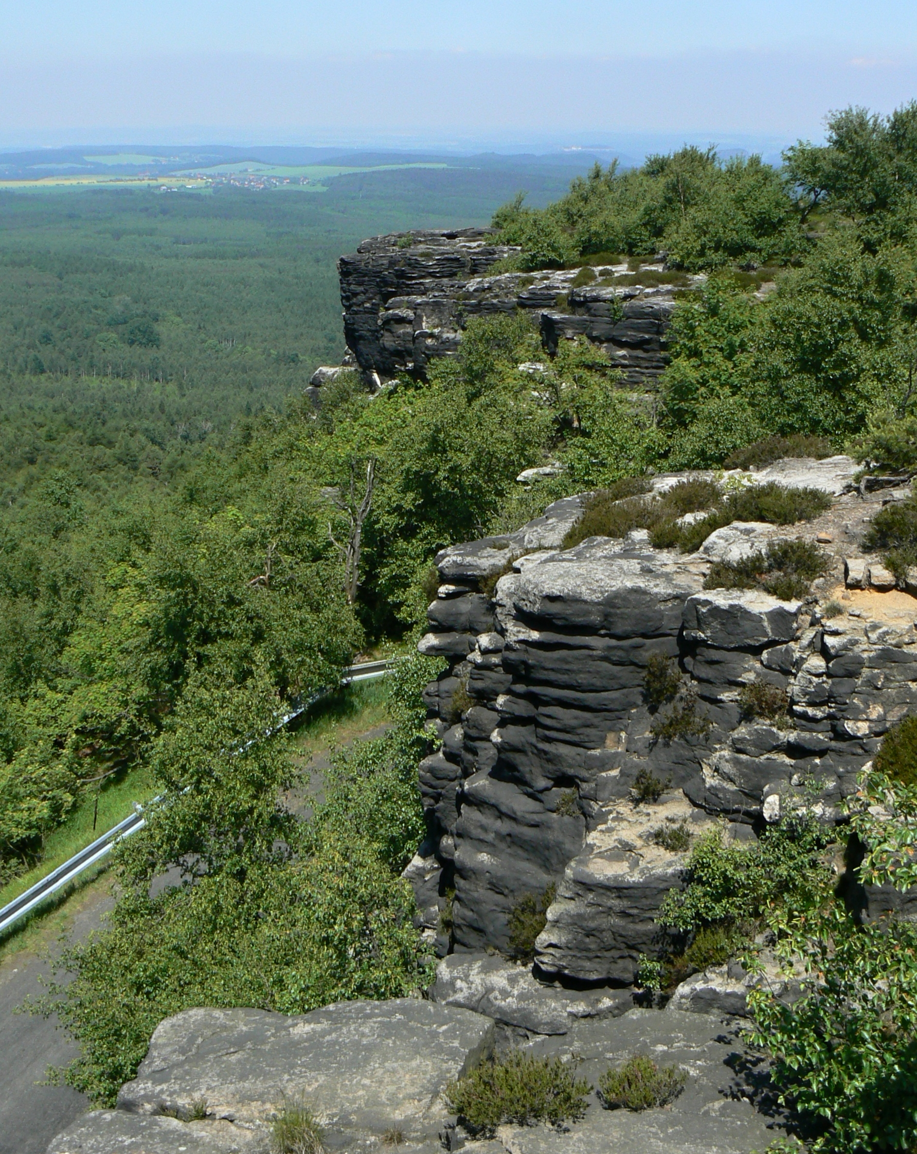 Děčínský Sněžník is sandstone table mountain in landspace park Labské pískovce), Děčín District